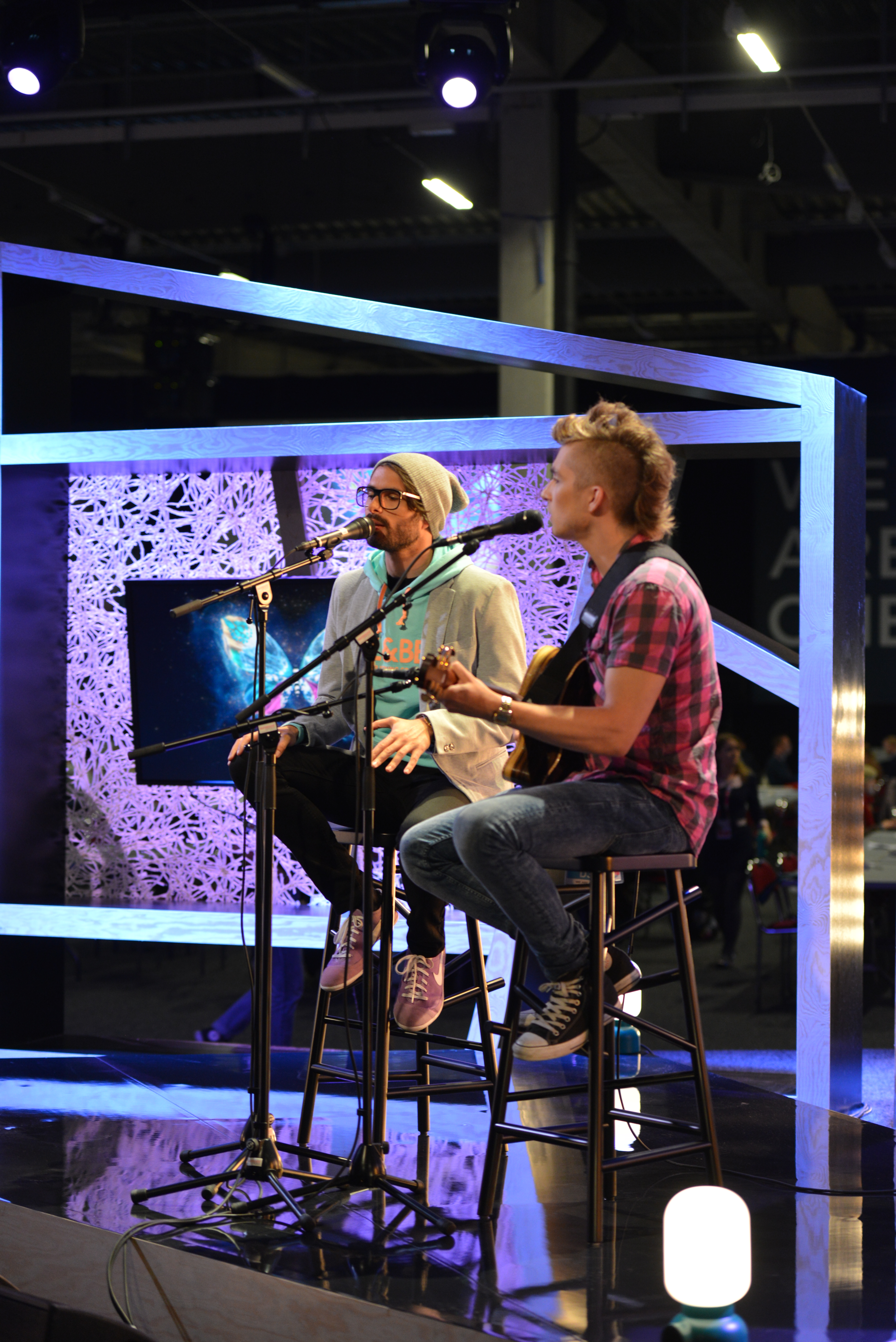 Hungarian artist ByeAlex rehearsing his Eurovision song Kedvesem in the Swedish TV-show "Studio Eurovision" inside the press centre of the Eurovision Song Contest 2013.